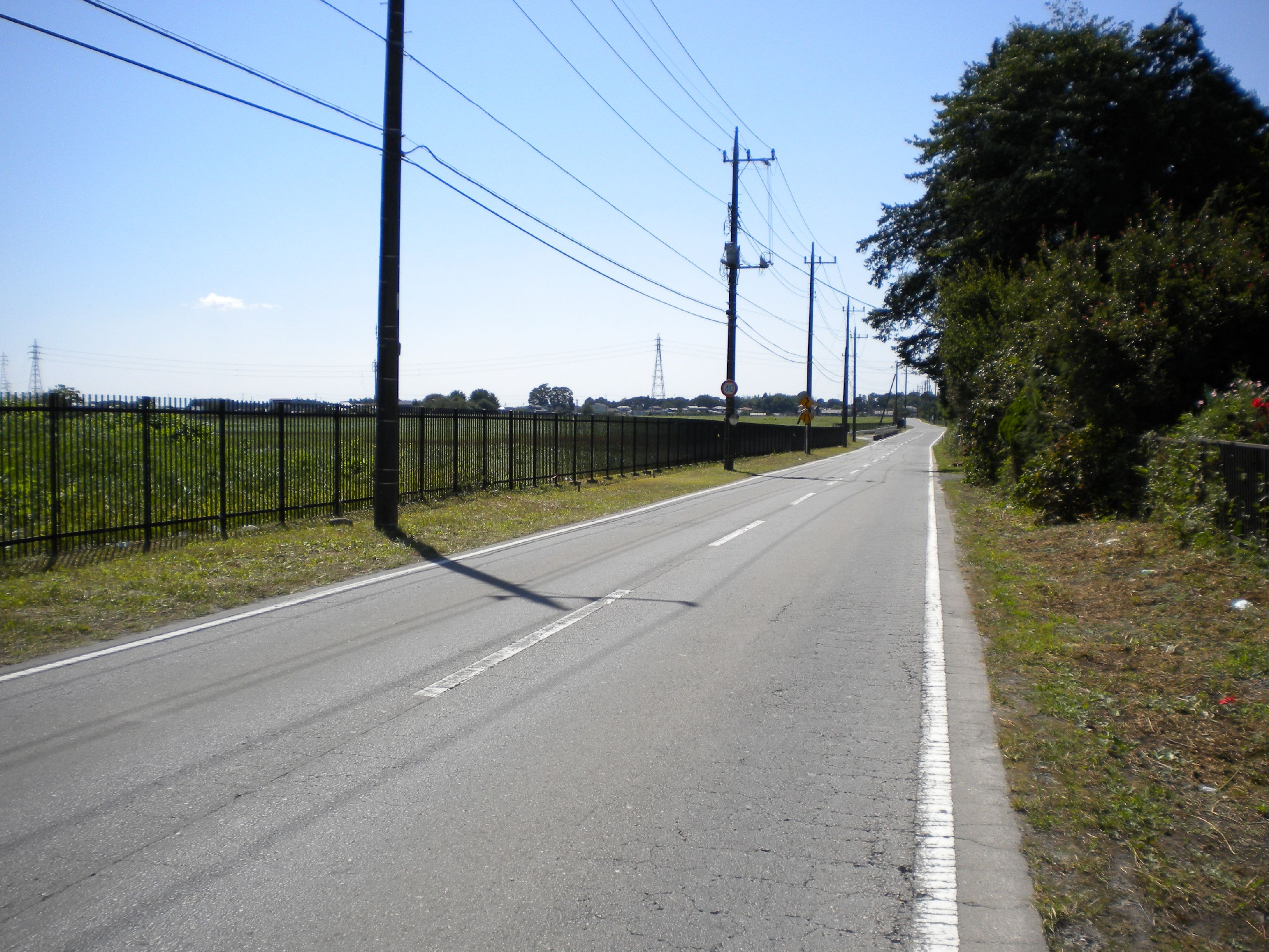 The Tochigi Prefectural Road Route 155 in Hanyuda, Mibu Town